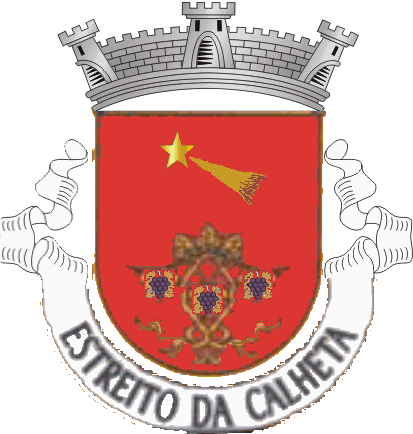 Coat of Arms of freguesia of Estreito da Calheta, Madeira Island.